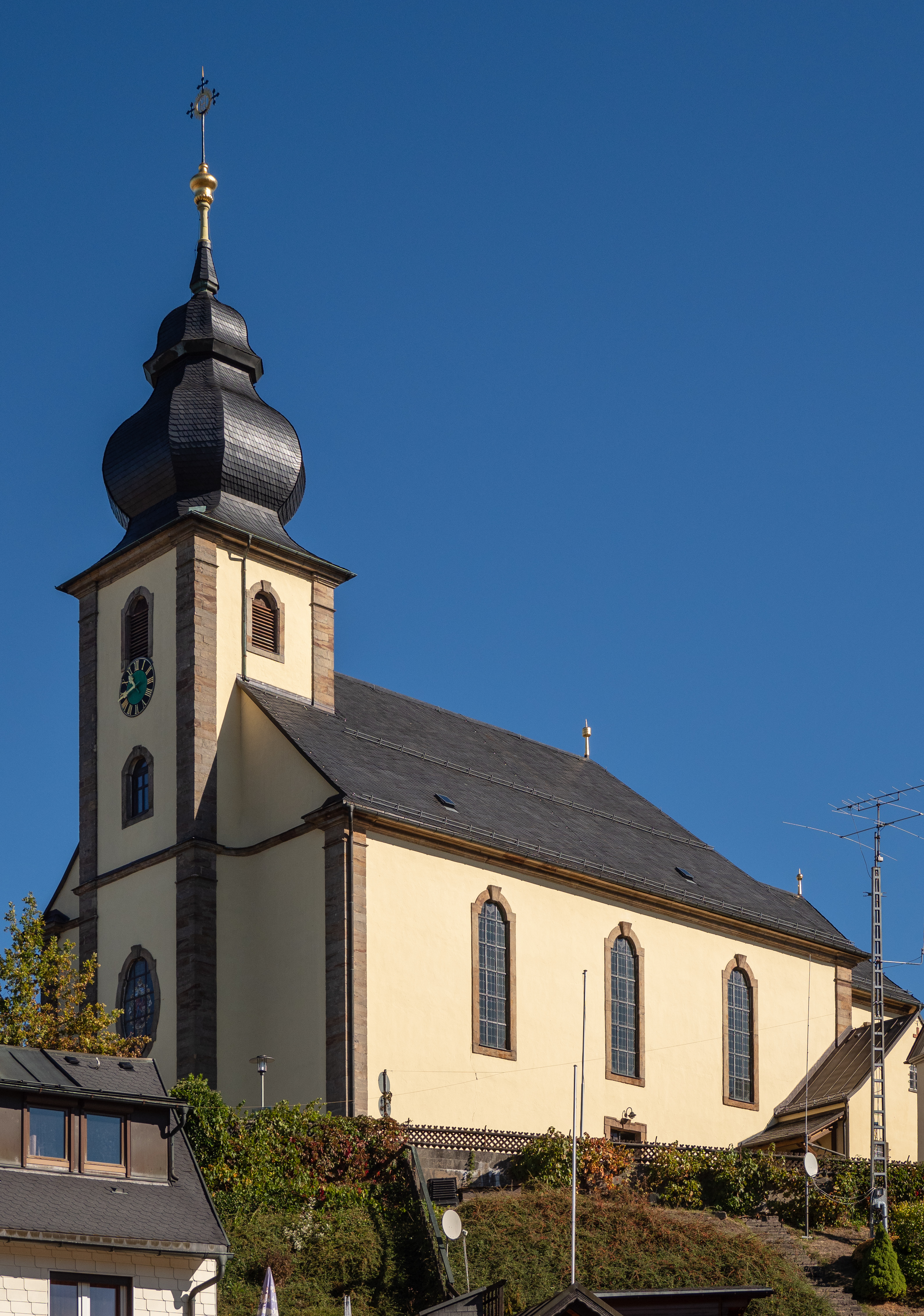 Catholic branch church St. Bartholomew and Martin in Marktleugast